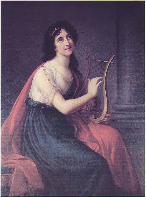 Sofie Haugwitz (Sophie Haugvicová, 1803-1835) - New Castle Svetlov